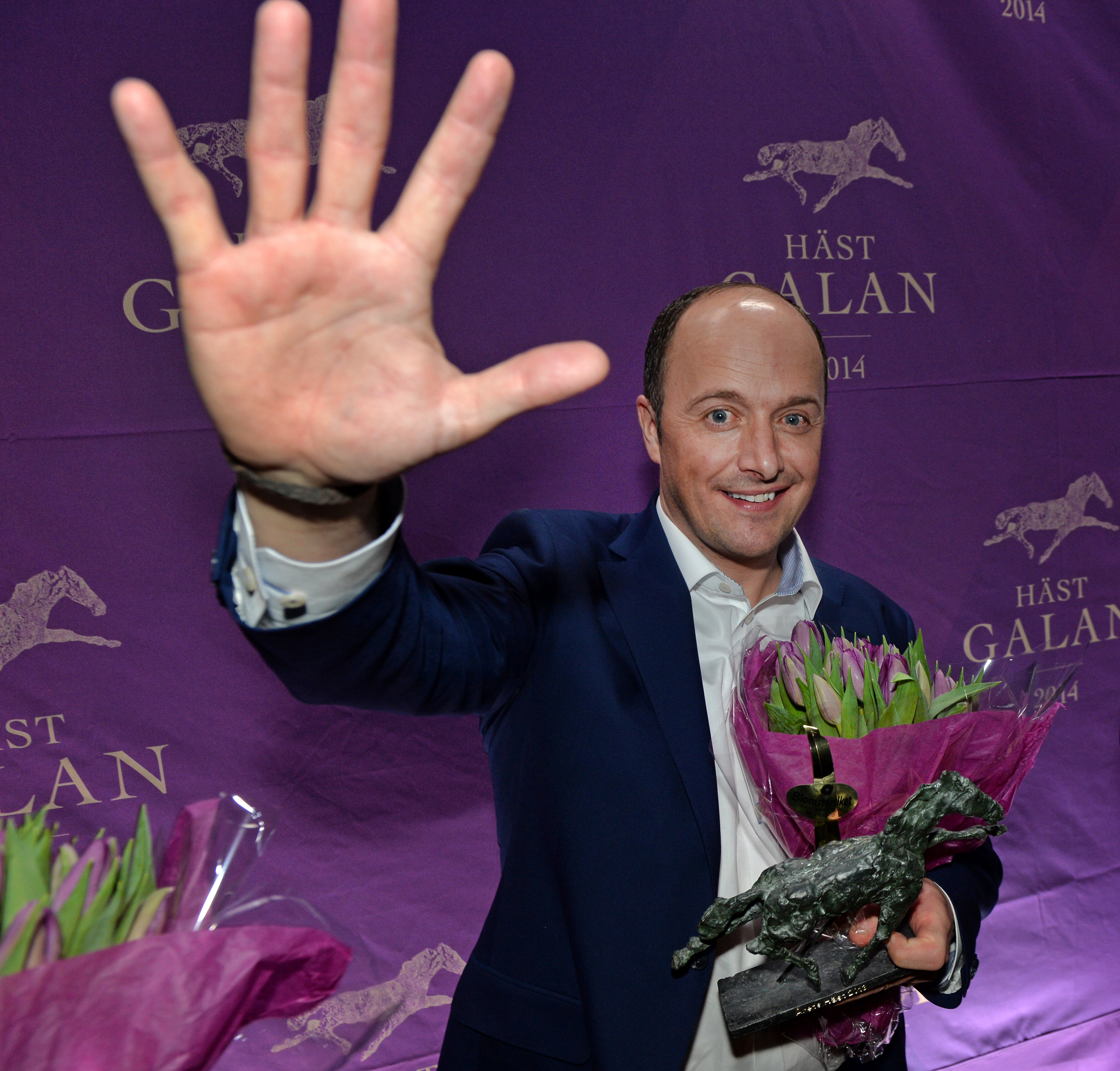 Travkusken Robert Bergh på Hästgalan 2014.